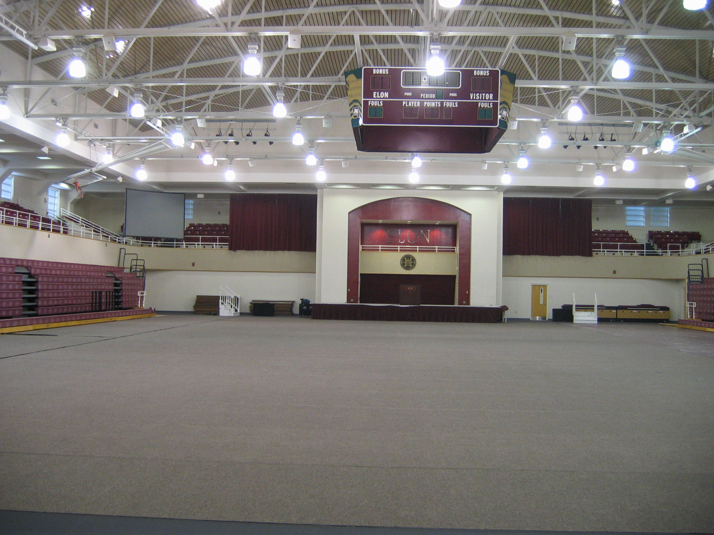 Football & Basketball Facilities Elon U Baskeball Arena